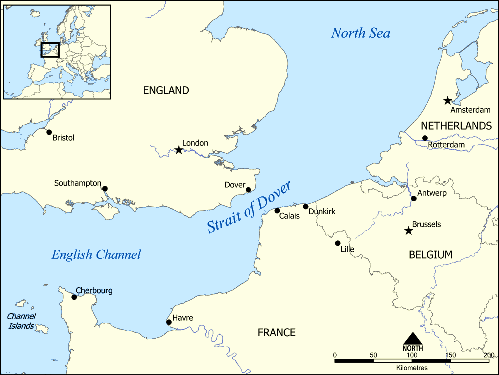 This map shows the location of the Strait of Dover between England and France, and part of the English Channel and the North Sea. It also shows nearby towns such as Dover, Calais, and Dunkirk. Created by NormanEinstein, December 15, 2005.